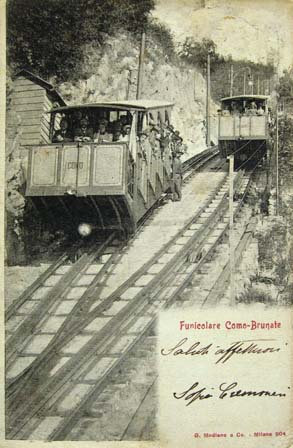 Como-Brunate funicolar - 1904